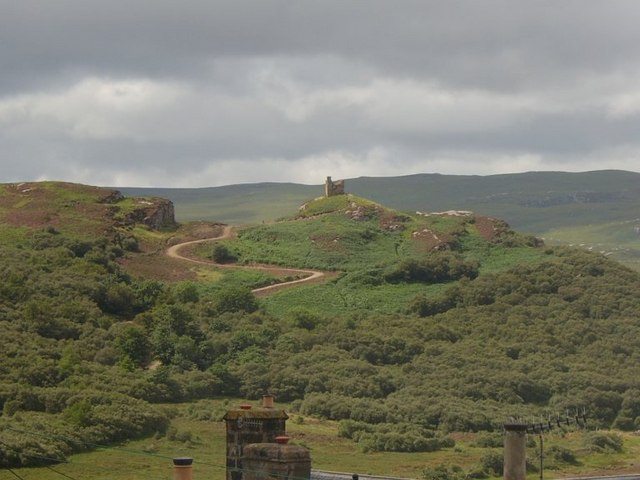 Castle Varrich